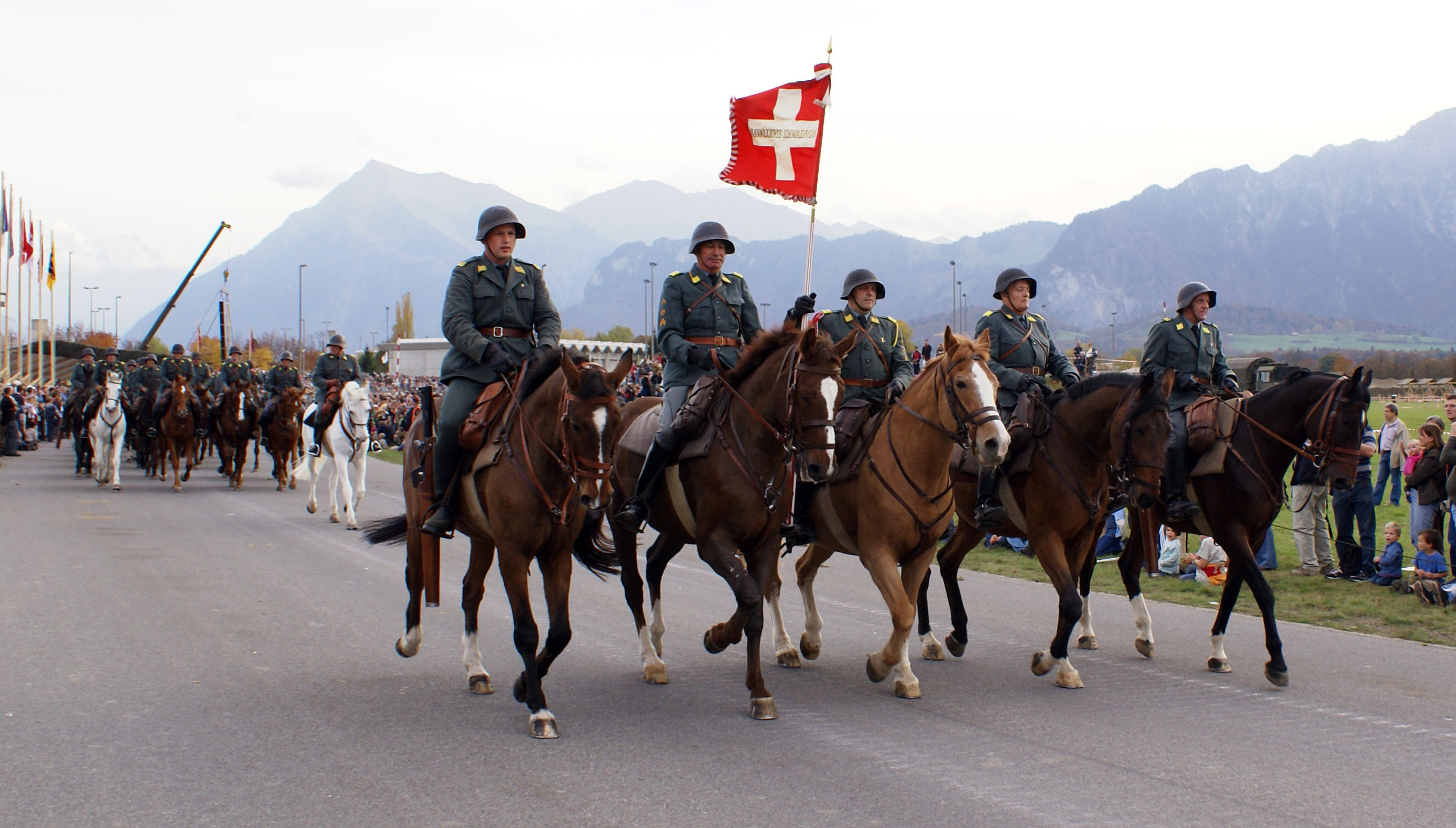 Swiss Army. Cavalry squadron 1972. Veterans' traditional unit, passing for review in the 1972 uniform.